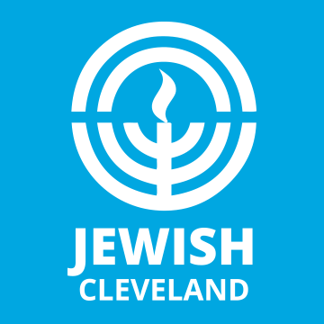 It's the logo of the Jewish Federation of Columbus